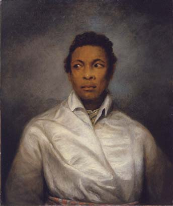 Manchester Art Gallery: "Description Half length frontal portrait of Ira Aldridge, celebrated nineteenth century black actor, in the role of Othello. He is dressed in a white shirt, with a white lace necker-chief, he looks nervously to the left. Plain background.